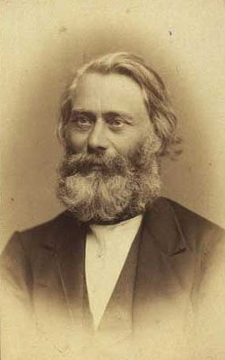 Caspar Wilhelm Smith (1811-1881), Danish linguist